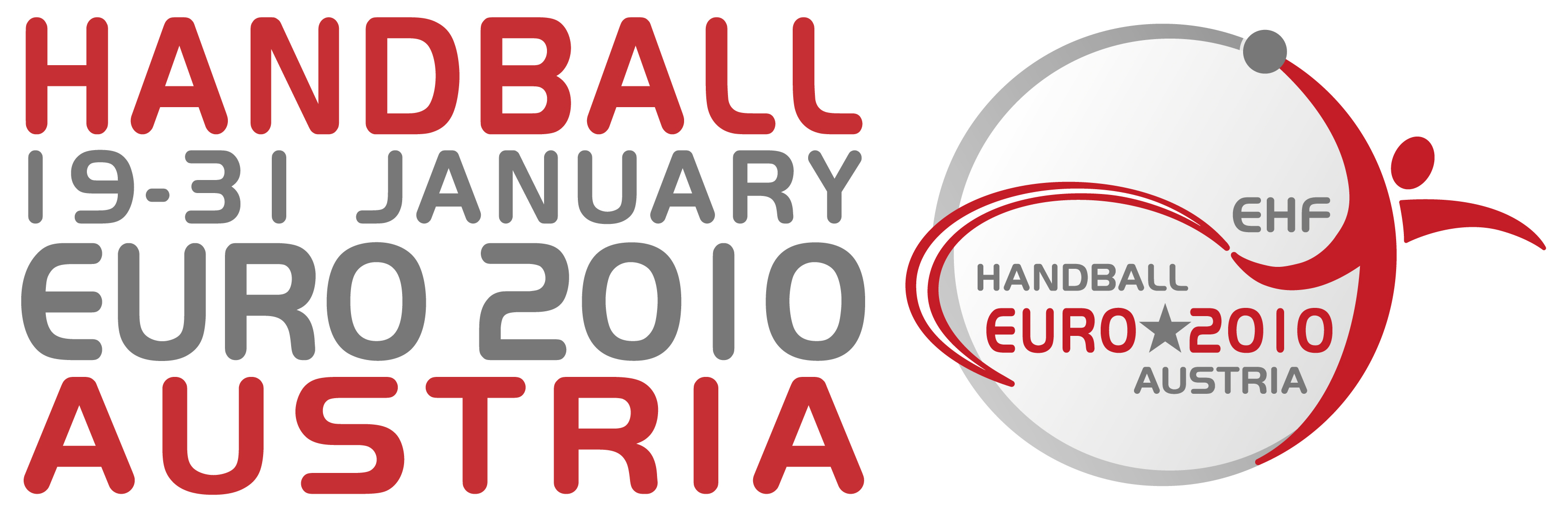 Official Logo of the 2010 European Men's Handball Championship tr: 2010 Avrupa Erkekler Hentbol Şampiyonası'nın resmî logosu.